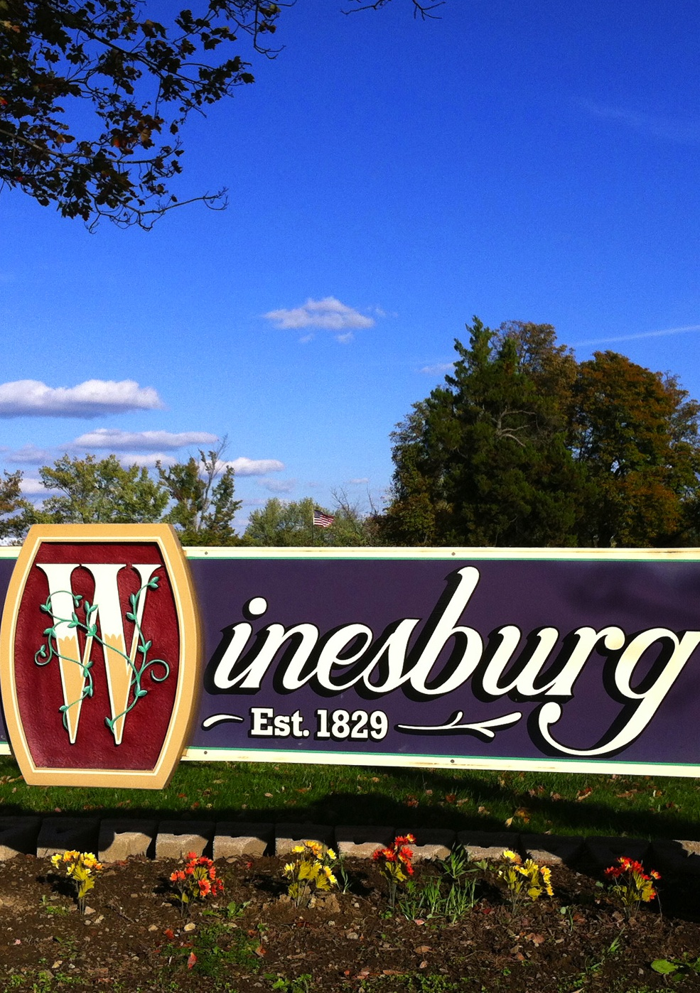 Winesburg is an unincorporated community in southwestern Paint Township, Holmes County, Ohio, United States. The town sits on the crest of a hill in the Amish country of Ohio, with a quaint downtown containing antique shops. It lies along U.S. Route 62. Its name is borrowed by Sherwood Anderson for his book Winesburg, Ohio.